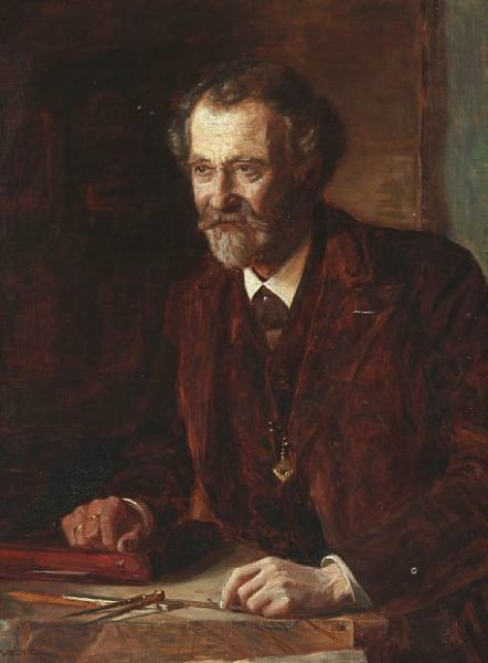 Wilhelm Dahlerup by Jorgen Luplau Janssen